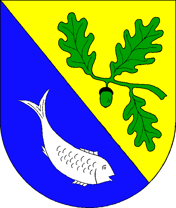 Coat of arms of the municipality Niesgrauin Schleswig-Holstein, Germany.